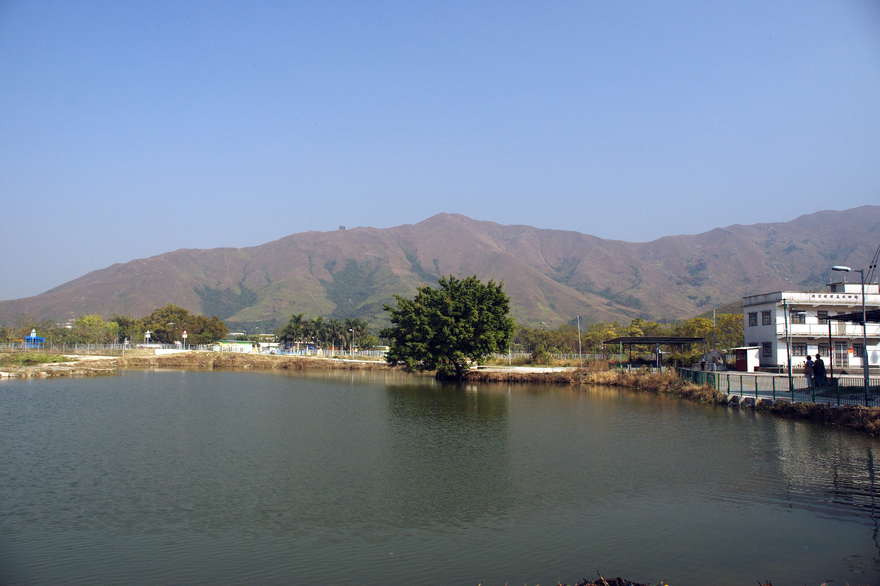 Shui Mei Tsuen, Kam Tin, New Territories, Hong Kong. The building on the right is the Shui Mei Tsuen Rural Office.